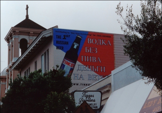 Tinkov Russian beer ad on Geary boulevard in San Francisco, CA, June 2000